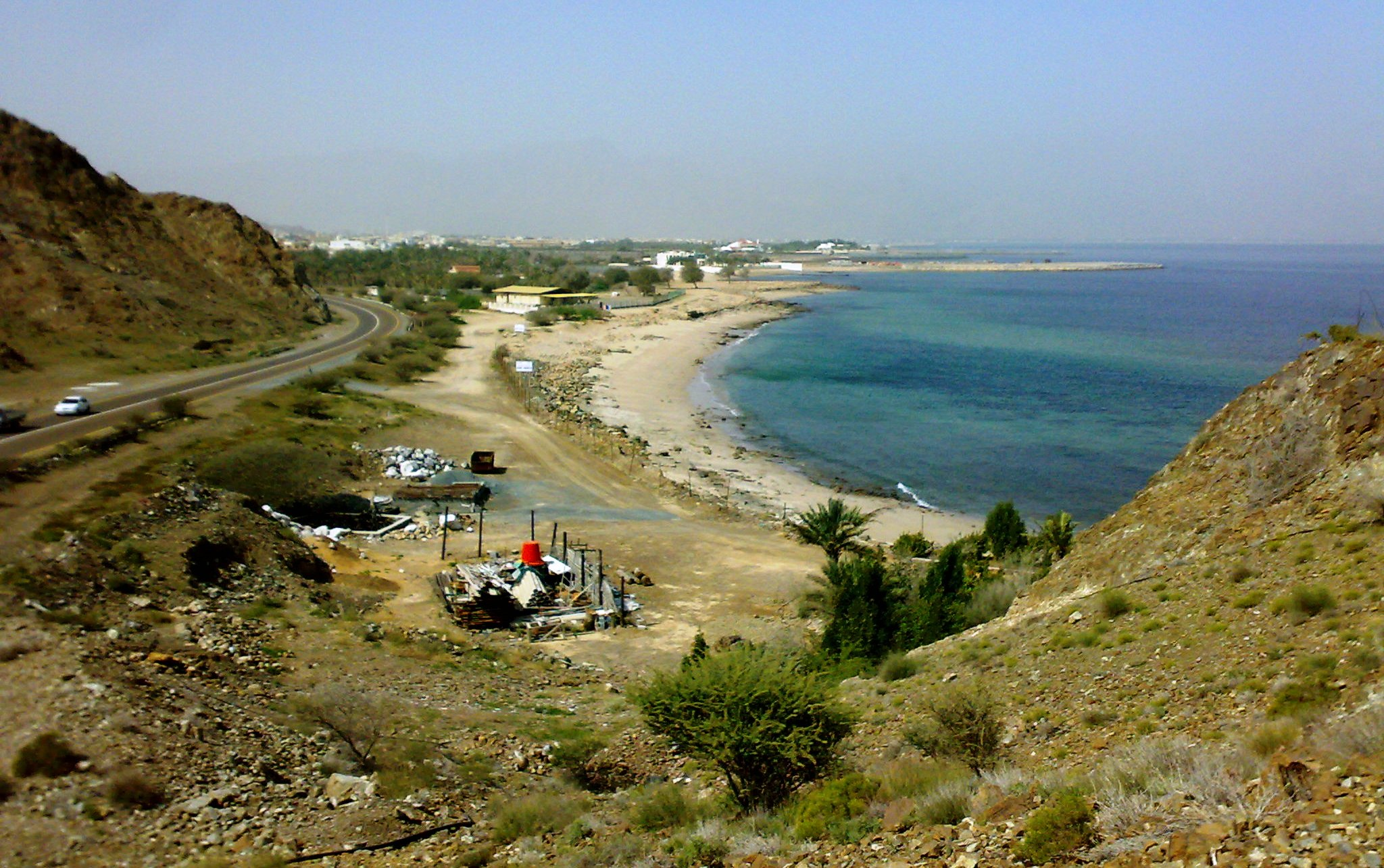 The city of Dibba, in northernmost Fujeirah emiorat (UAE), on the border towards Oman in the north.